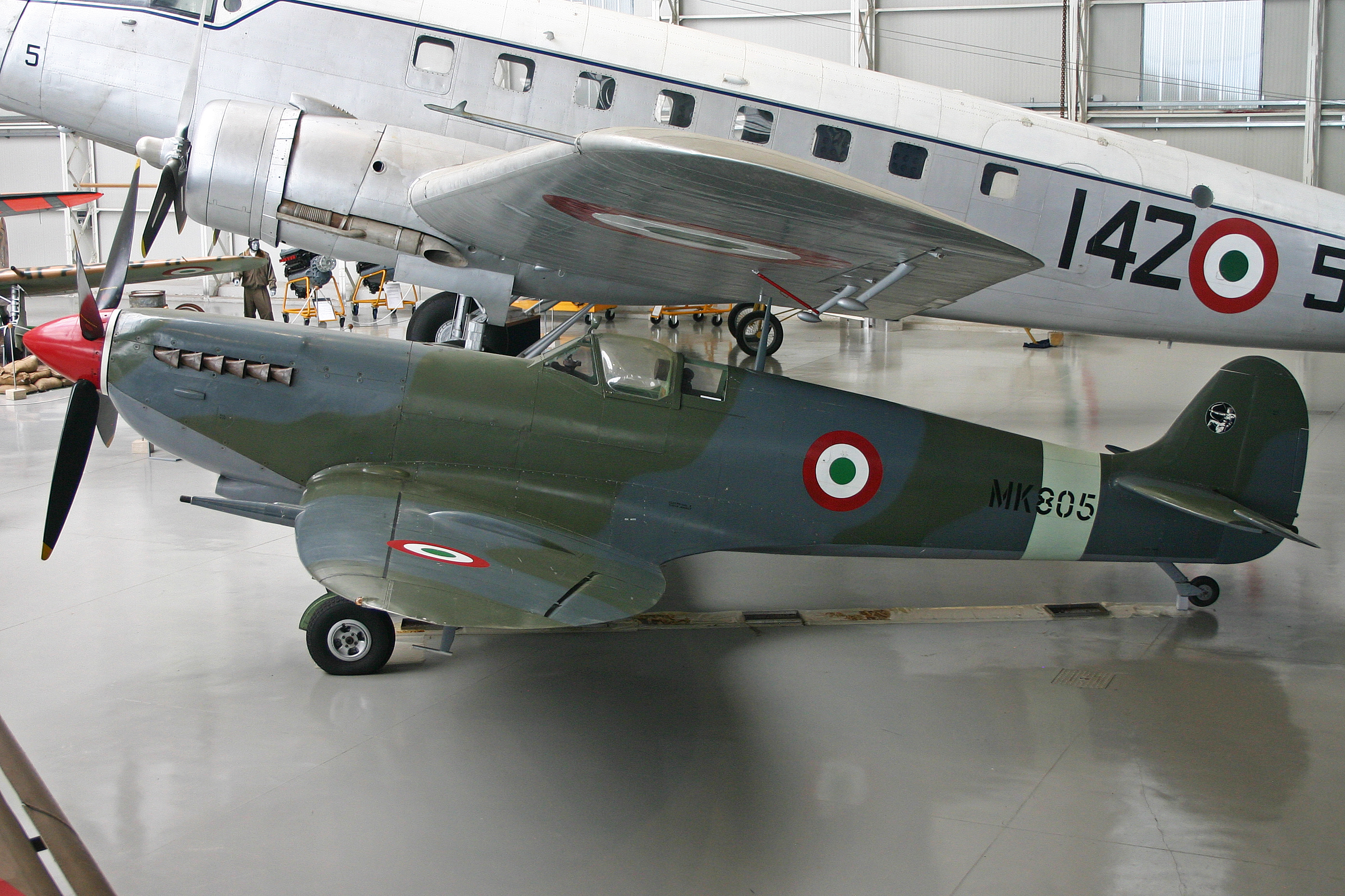 Displayed in Hangar BADONI. Genuine MK805 and also ex Italian AF MM4084. msn CBAF.IX1780